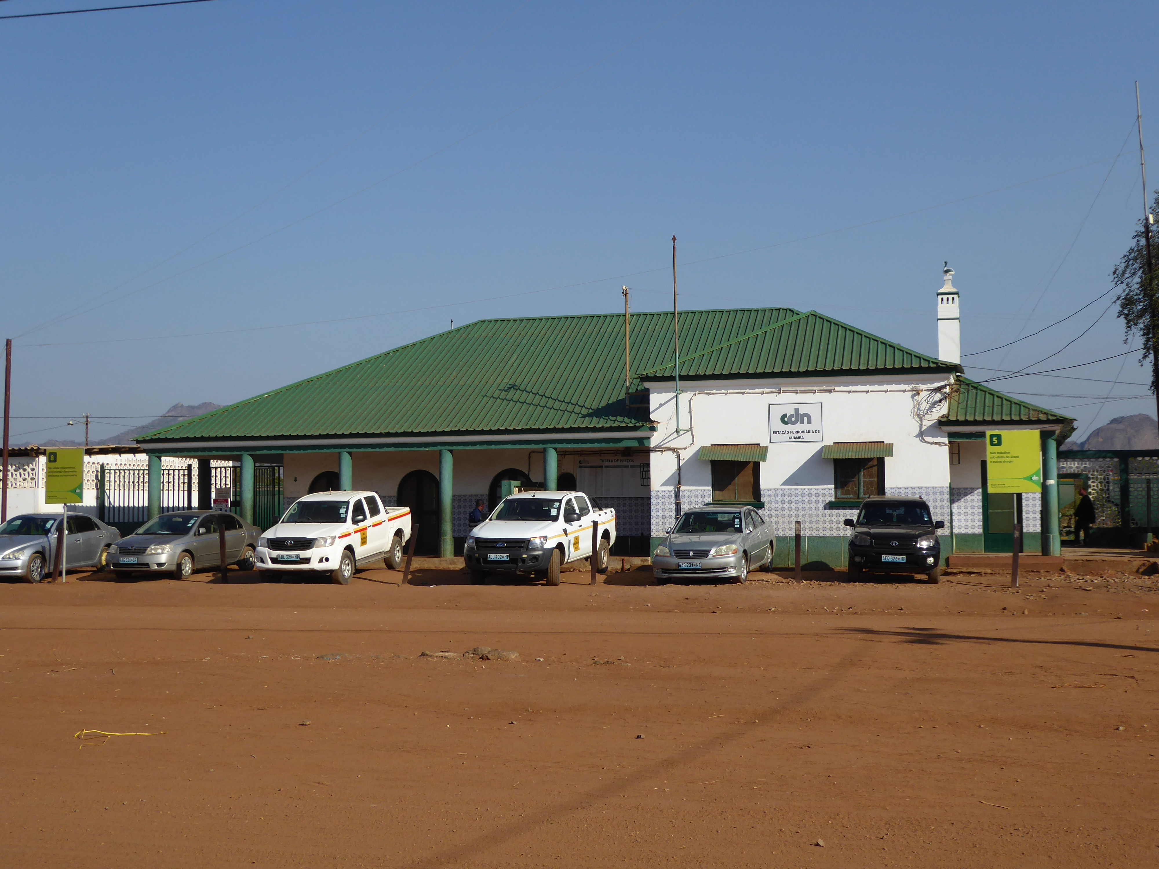 Train station of Cuamba, Niassa province, Mozambique